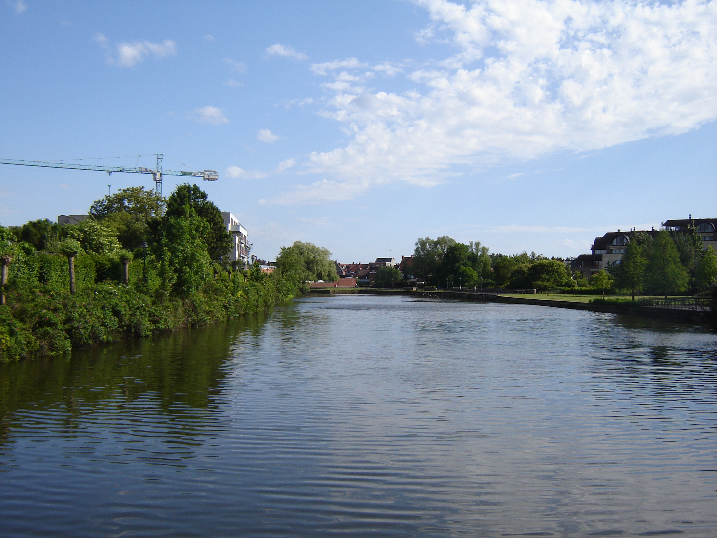 Grote Bassin basin, with around it the city park. Roeselare, West Flanders, Belgium